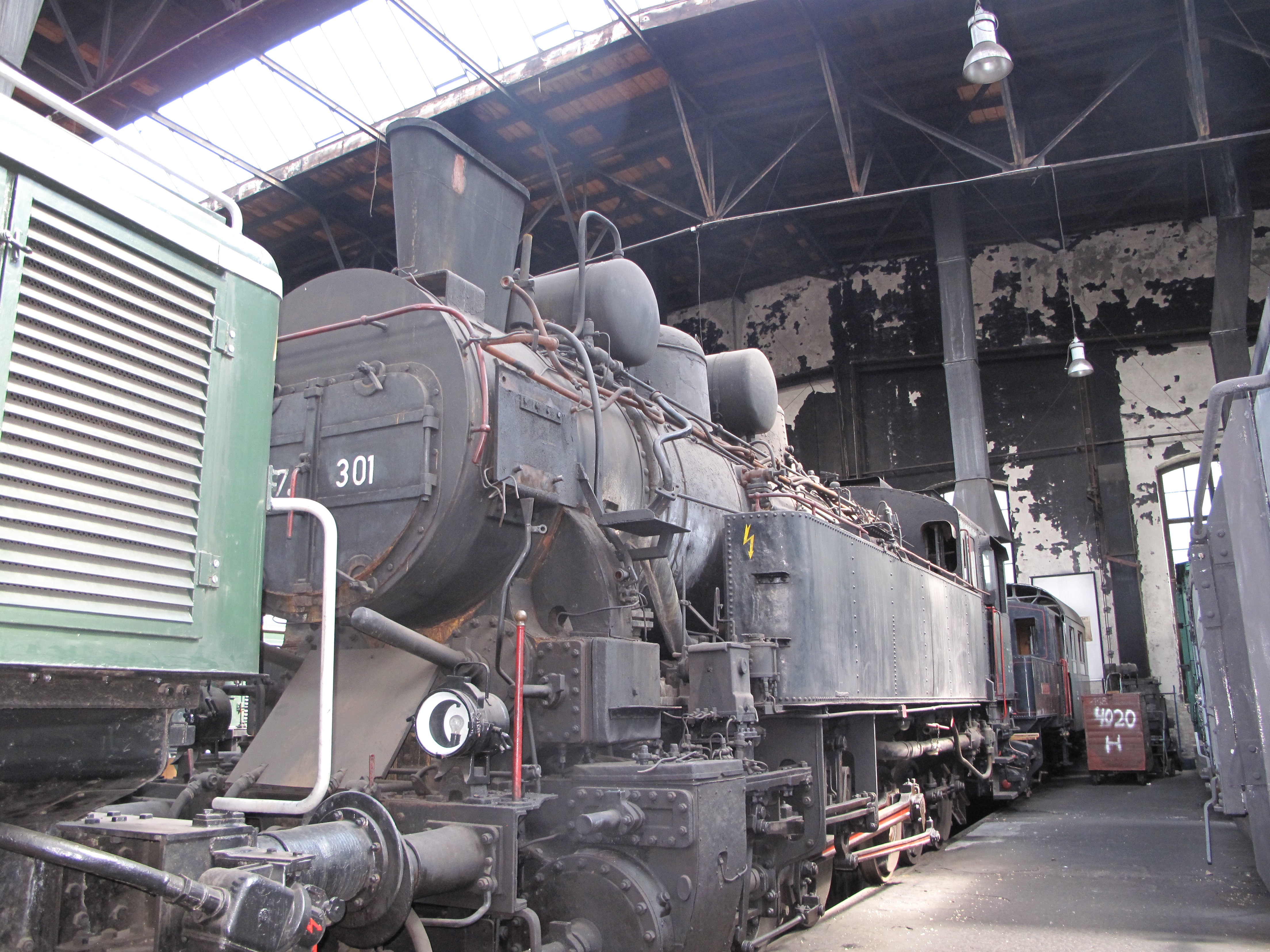 Rack railway KkStB Class 269 0-12-0T at Das Heizhaus, Strasshof